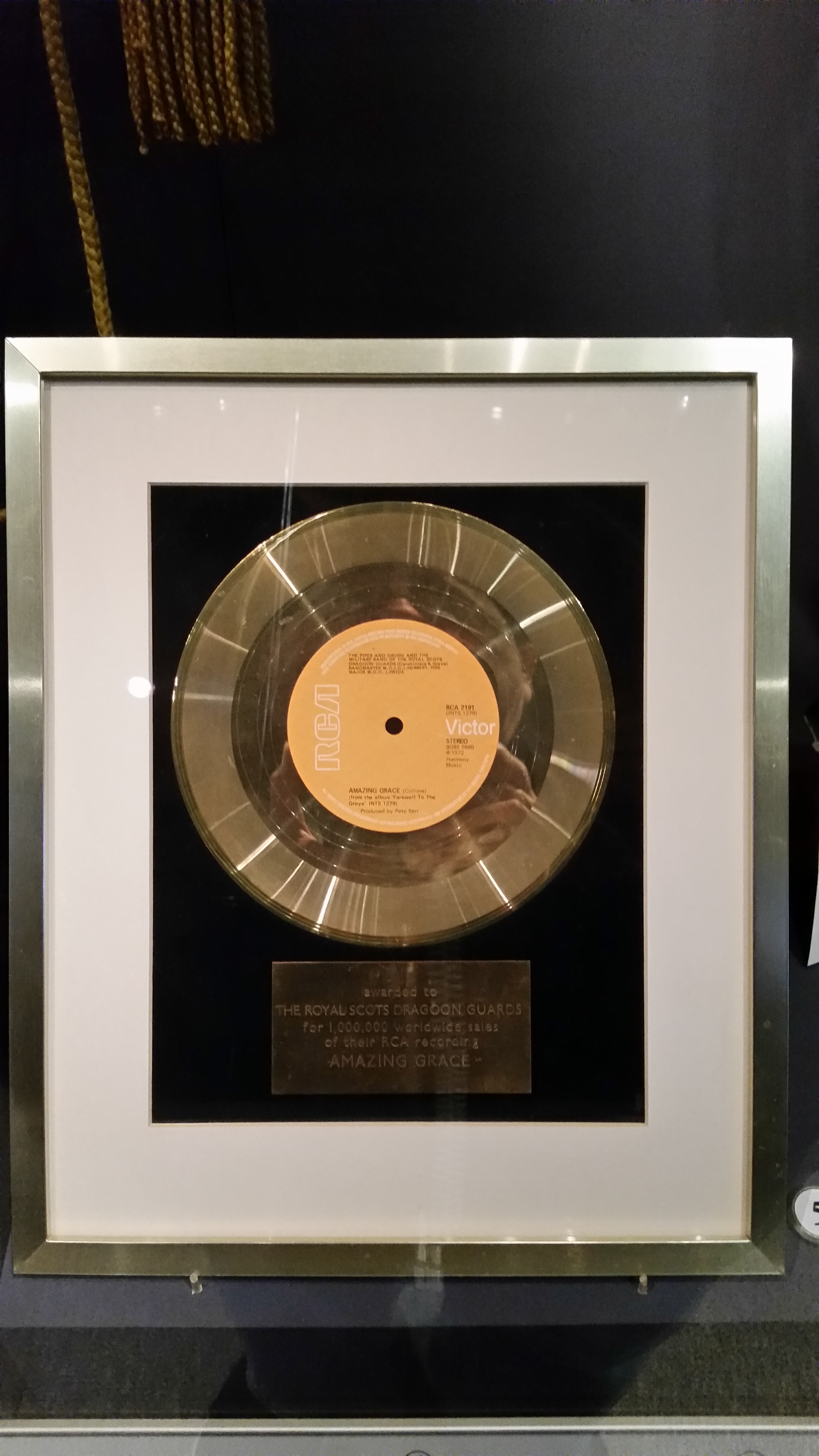 The Royal Scots Dragoon Guard's Regimental Museum Edinburgh Castle Castlehill, Edinburgh EH1 2NG